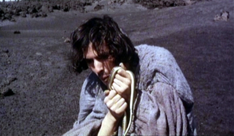 Screenshot from Porcile